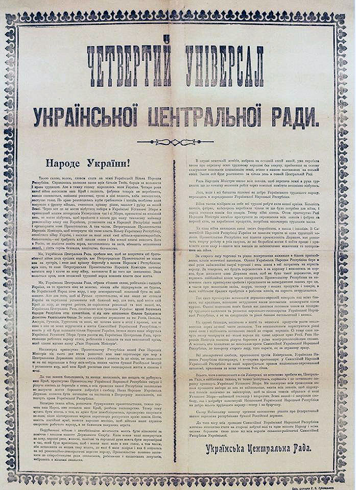 4th Universal of Central Council of Ukraine, declaration of indepedence of Ukraine